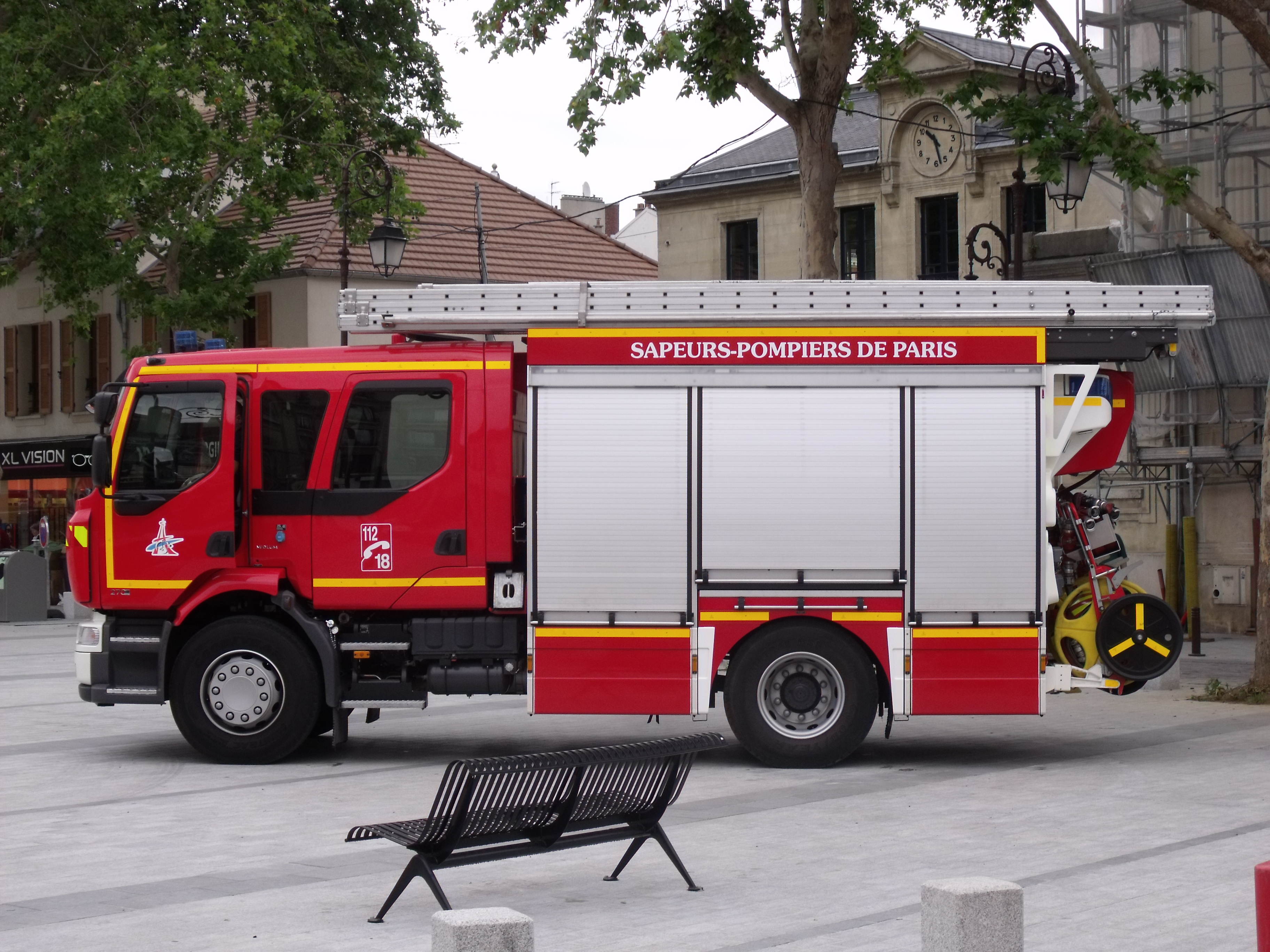 Fire Engine FPT20 of Paris Fire Brigade.